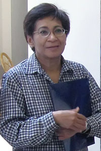 Mazlan Othman visiting 'Imiloa Astronomy Center of Hawaii on May 19, 2009. Photo by Dan Birchall.